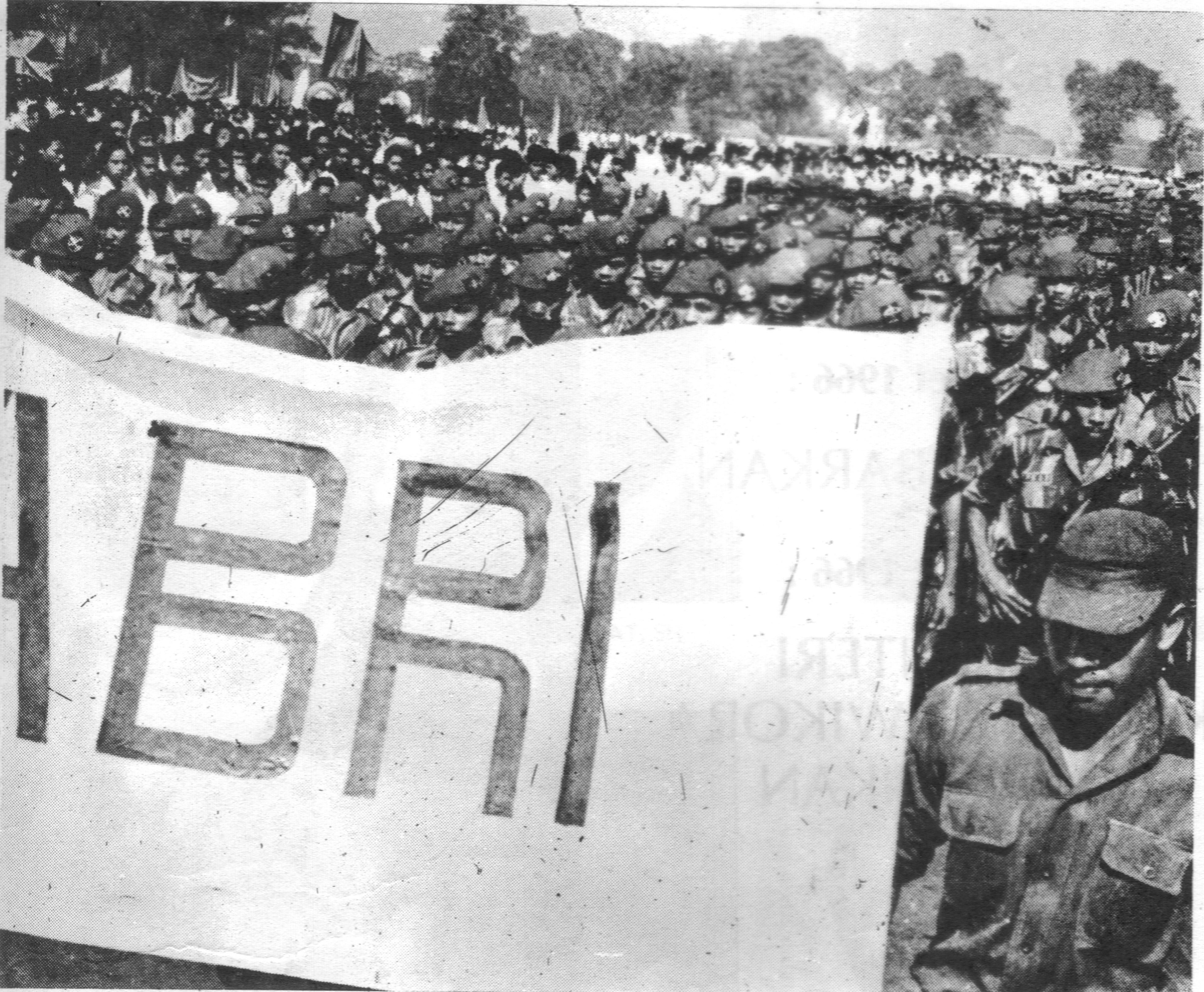 The show-off by the Armed Forces the day after the Supersemar, or the overthrow of Sukarno.